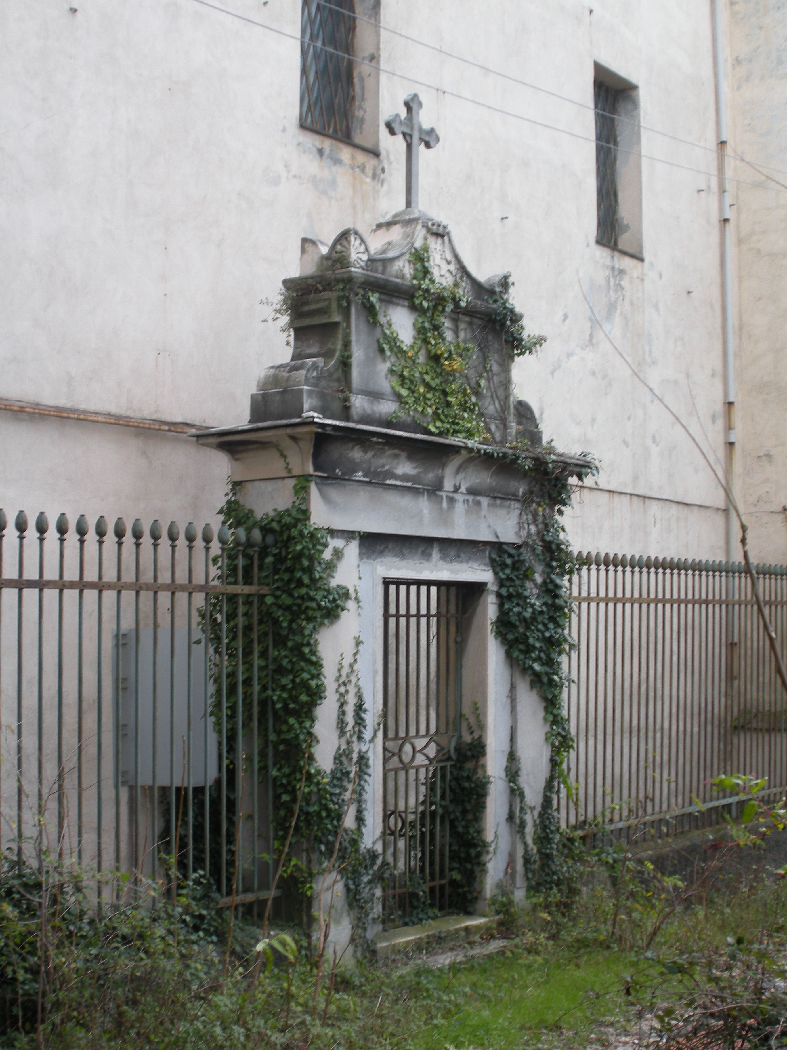 Genoa (Italy), quarter of Rivarolo, portal of the monastery of Misericordia